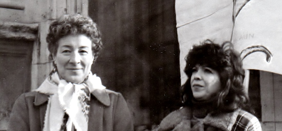 filmation Tangos de Fernando Solanas